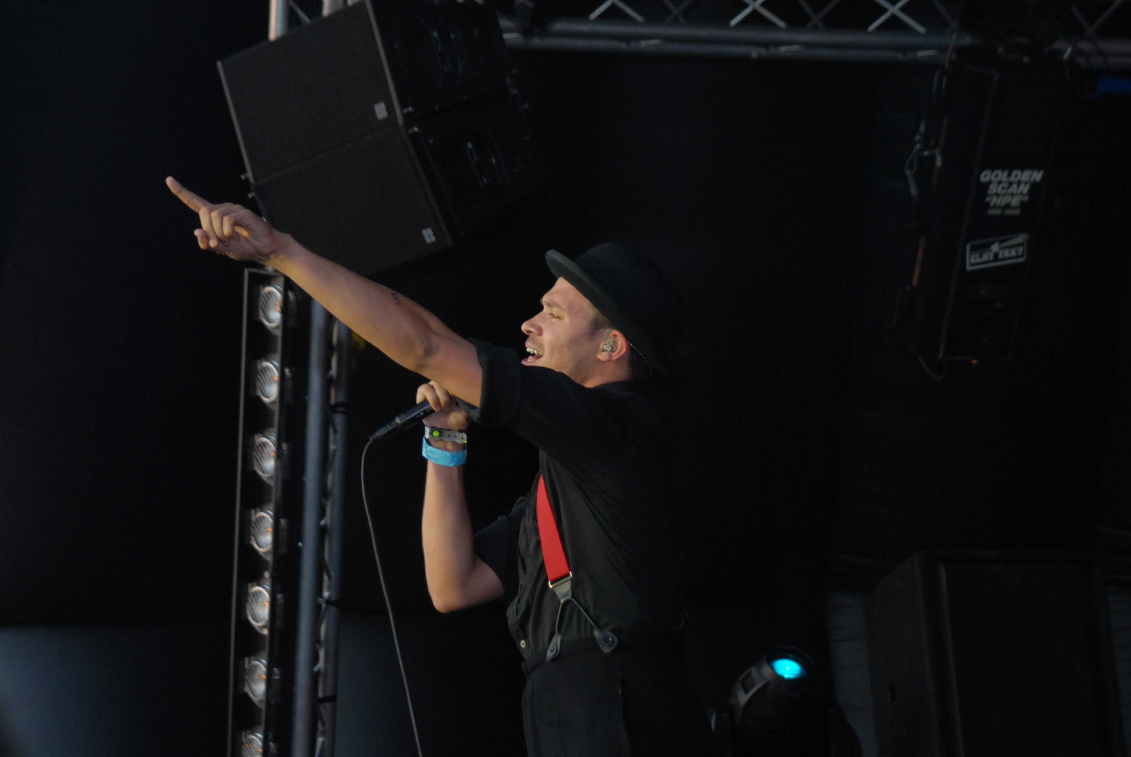 Will Young at Guilfest on the Ents24 stage.